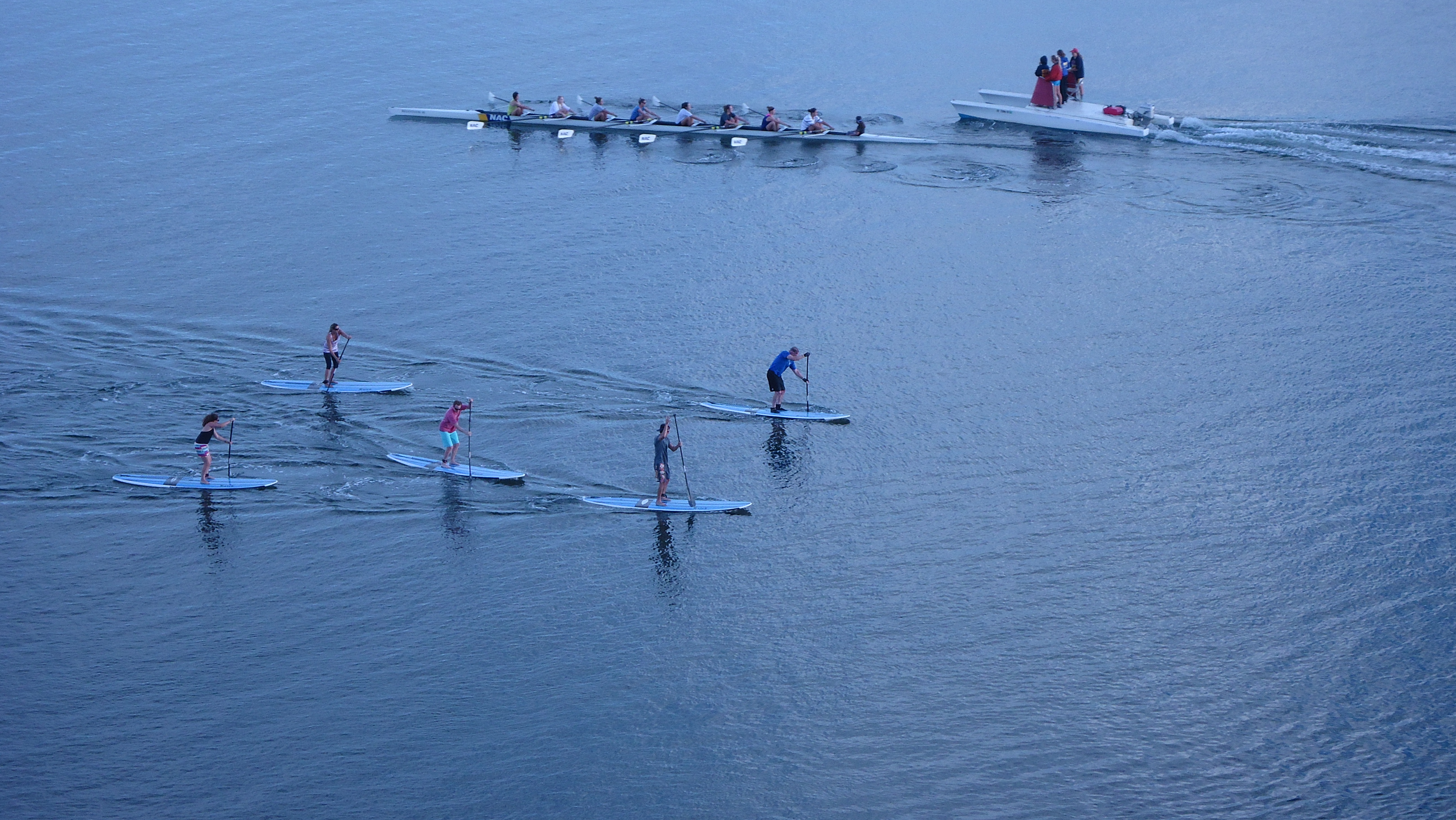 Photograph taken from location: 33° 37' 18.57" N 117° 53' 59.55" W